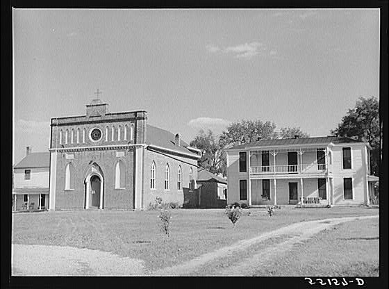 Saint Thomas Church and rectory near Bardstown, Kentucky